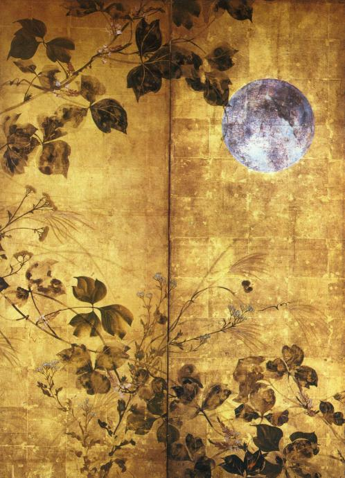 "Autumn Flowers and Moon" by Sakai Hōitsu (1761-1828), after the style of Ogata Korin obtained from - This image file shows only the middle part.